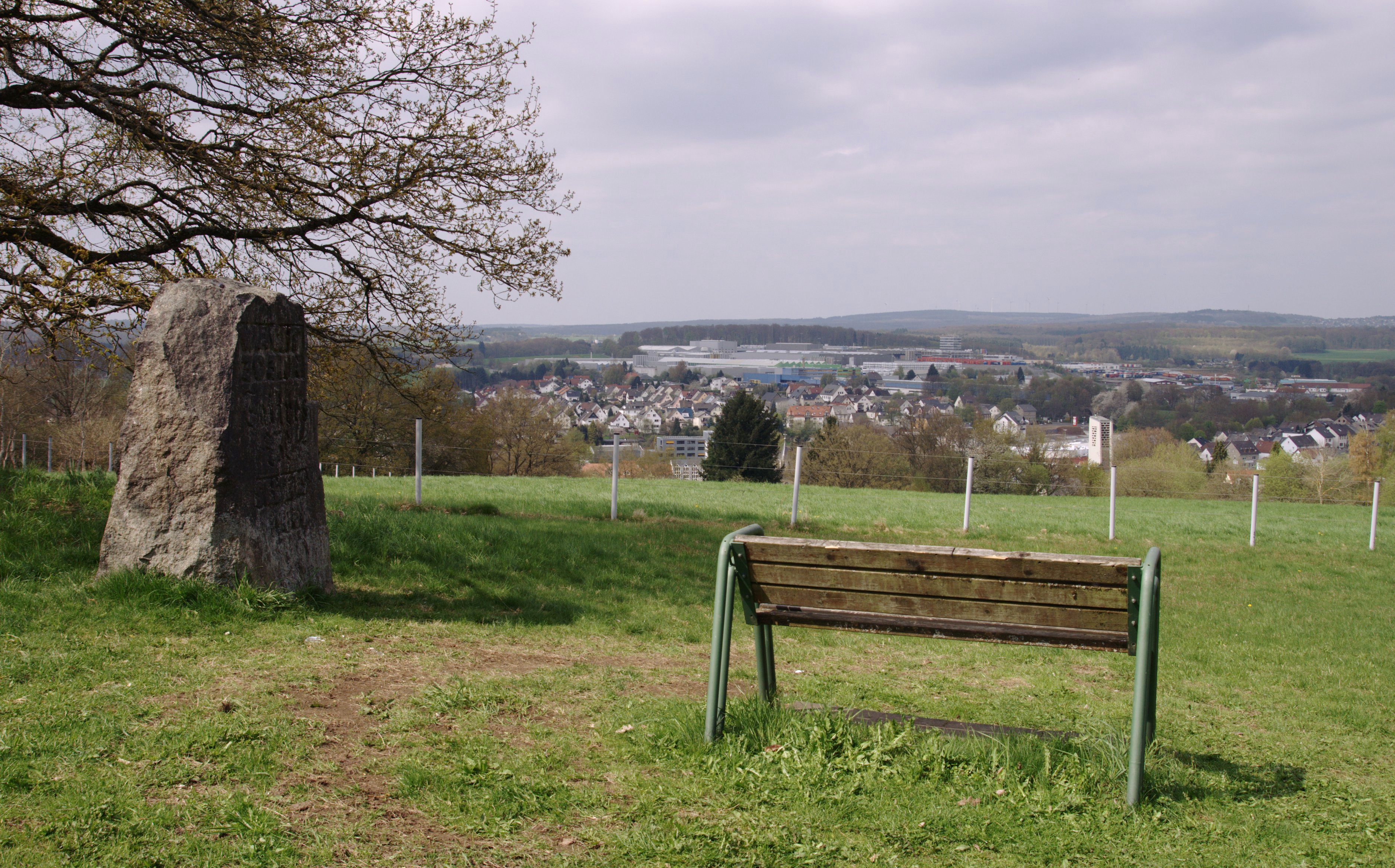 Town Selters, Westerwald, Germany. View to the town from the mountain Wacht south of the town